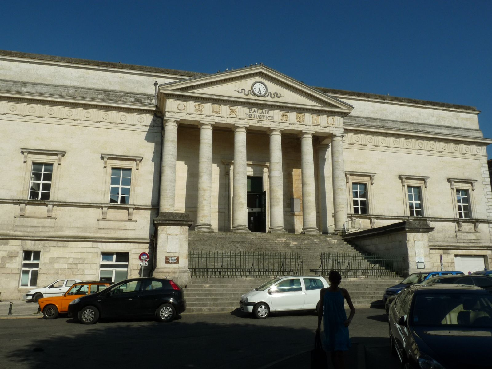 Court hall, Angoulême, Charente, SW France